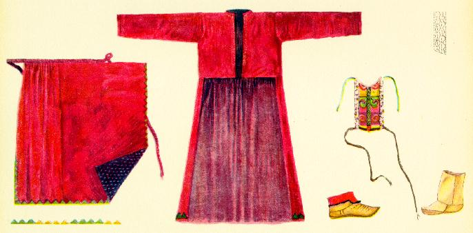 S. CAUCASUS, ALEXANDROPOL. Jeziden woman's dress; red velvet with apron and breast-bib. Origs. in Caucasus Mus.. Tiflis